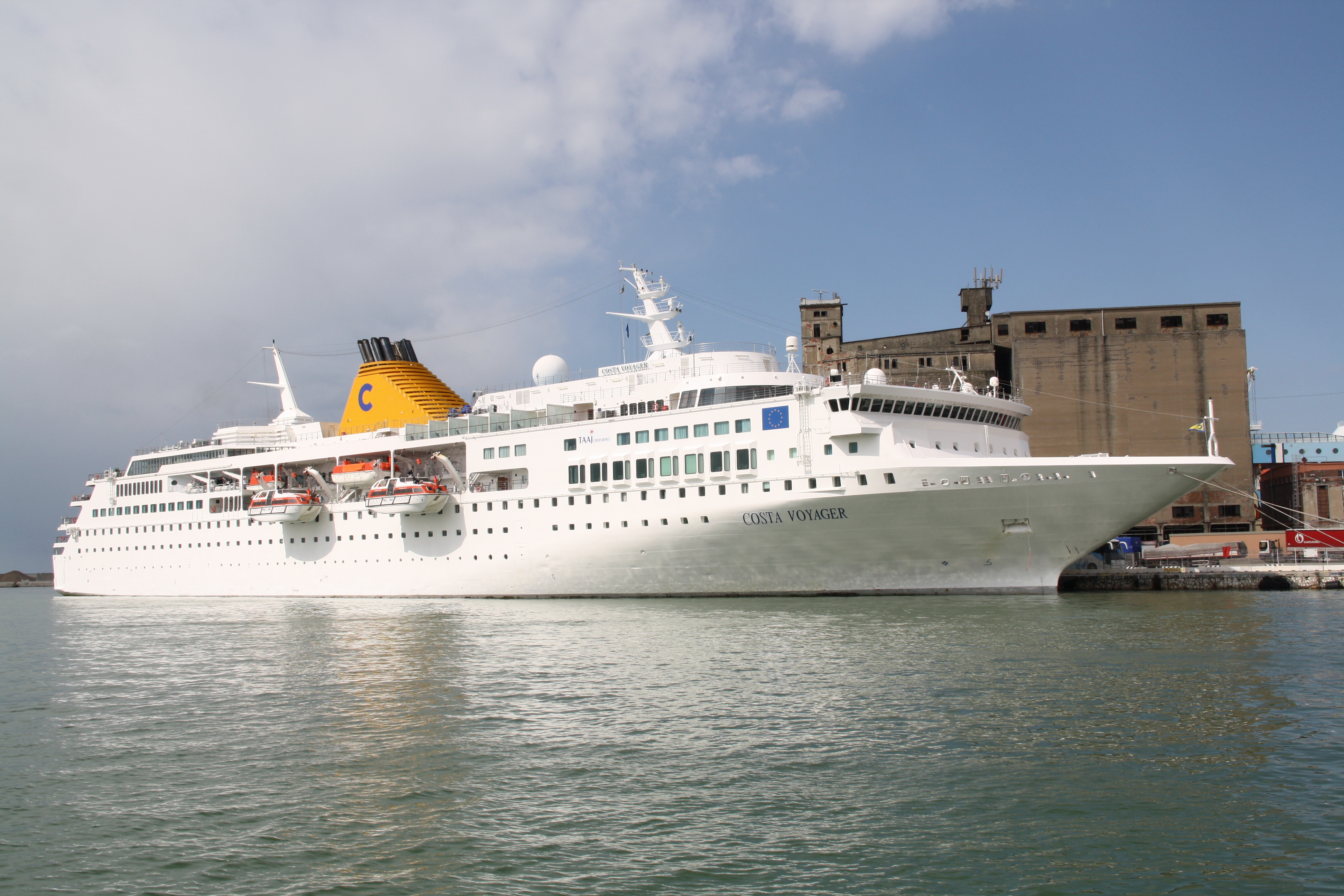 Italy, Port of Livorno. The Costa Corciere cruise ship Costa Voyager berthed at “Sgarallino" wharf of “Porto Mediceo”.